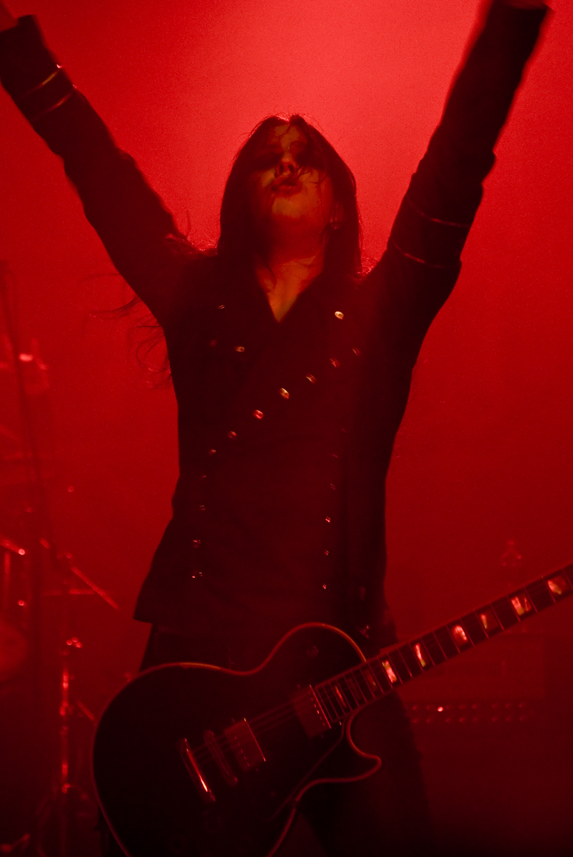 Emil Nodveidt of Deathstars live at Sziget Festival (Hungary)